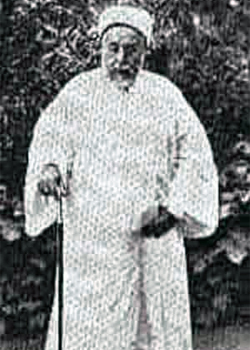 Iraqi former Prime-Minister Abdel-Rahman Al-Gillani